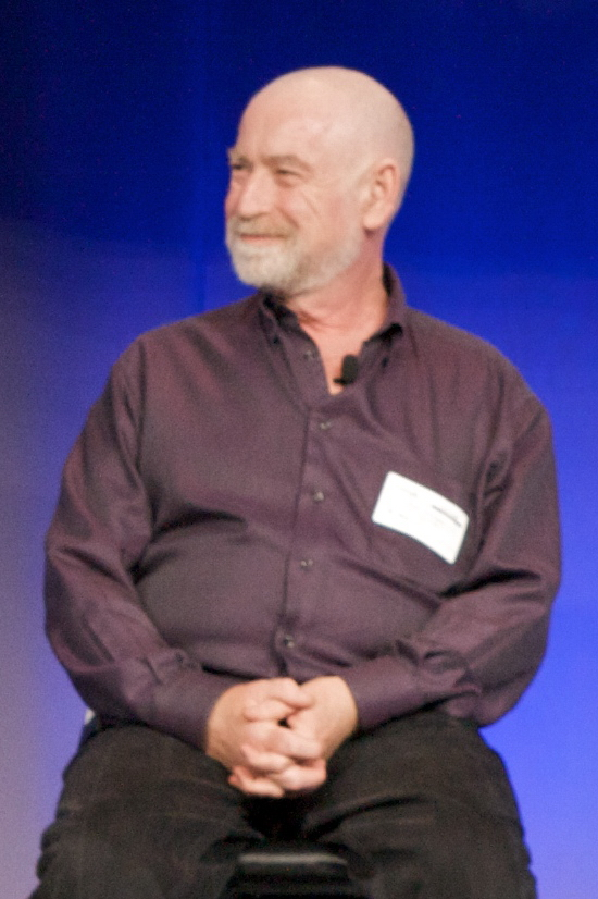 Marcin Wichary at WarGames 25th anniversary showing